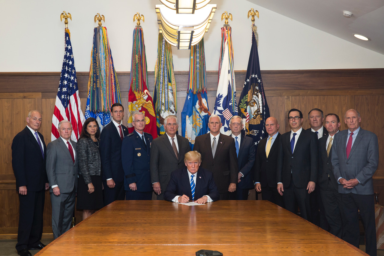 President Donald J. Trump poses with Vice President Mike Pence, Cabinet members, and Senior White House Advisors, Friday, Aug. 18, 2017, in Laurel Lodge at Camp David near Thurmont, MD., as he signed the Global War on Terrorism War Memorial Act. (Official White House Photo by Joyce N. Boghosian).